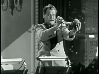 Movie screenshot of jazz trumpeter Billy Butterfield in a trumpet solo from Artie Shaw's "Concerto for Clarinet" from Second Chorus